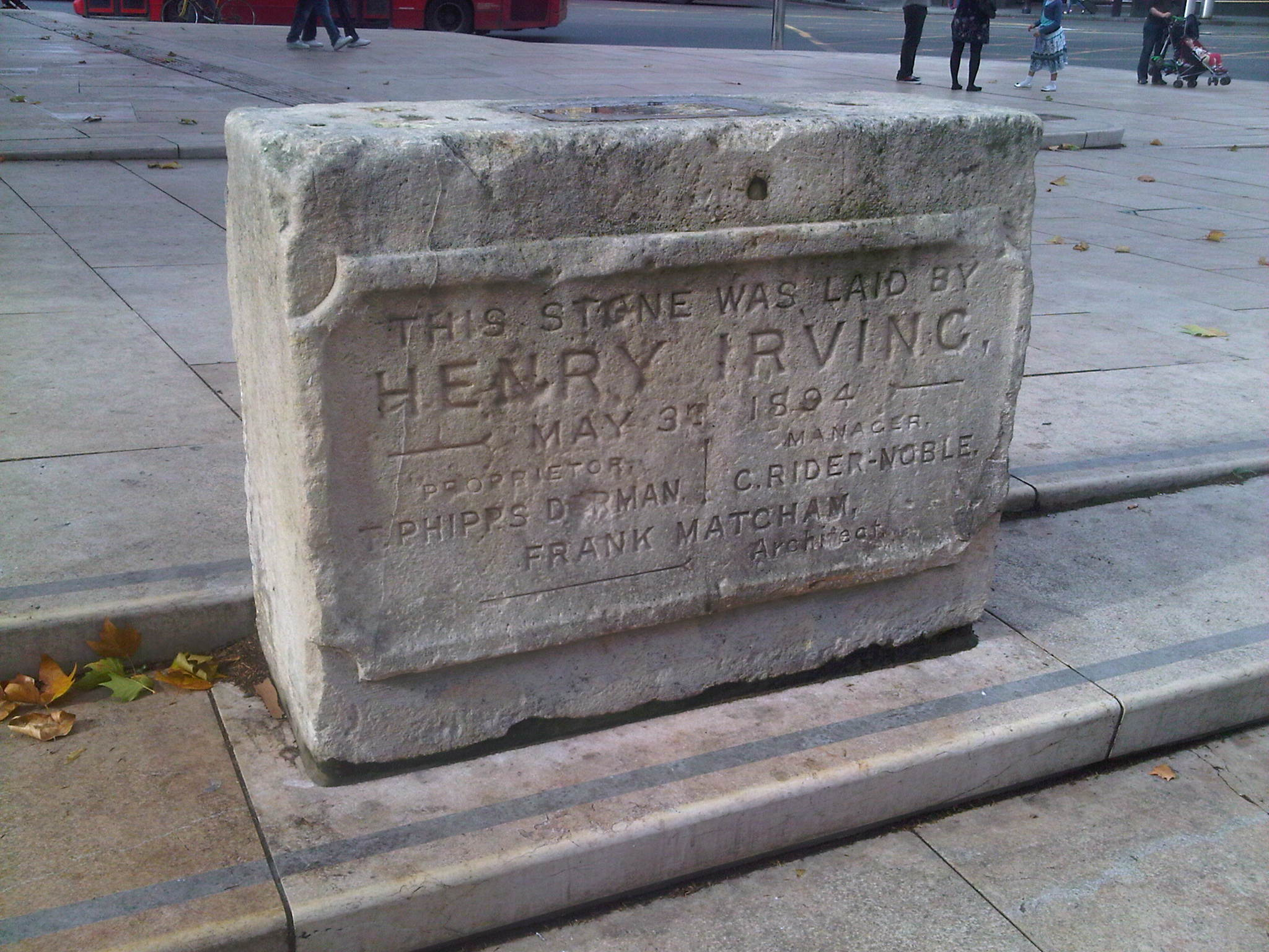 Memorial to Heny Irving outside Brixton Town Hall, London